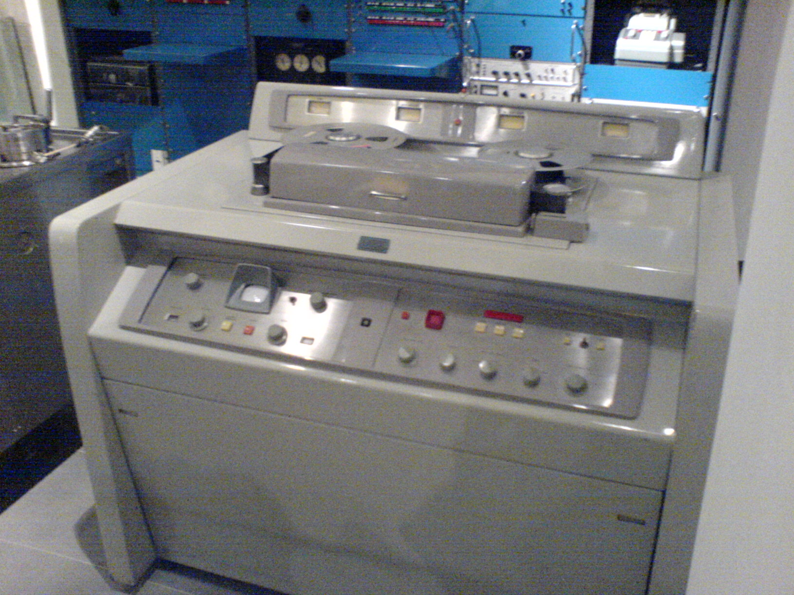 First Video Recorder. Ampex videotape recorder, type VR1000A, serial number 329, c 1950s. Credit: Science Museum Inventory No.: 1970-0173_(0001)